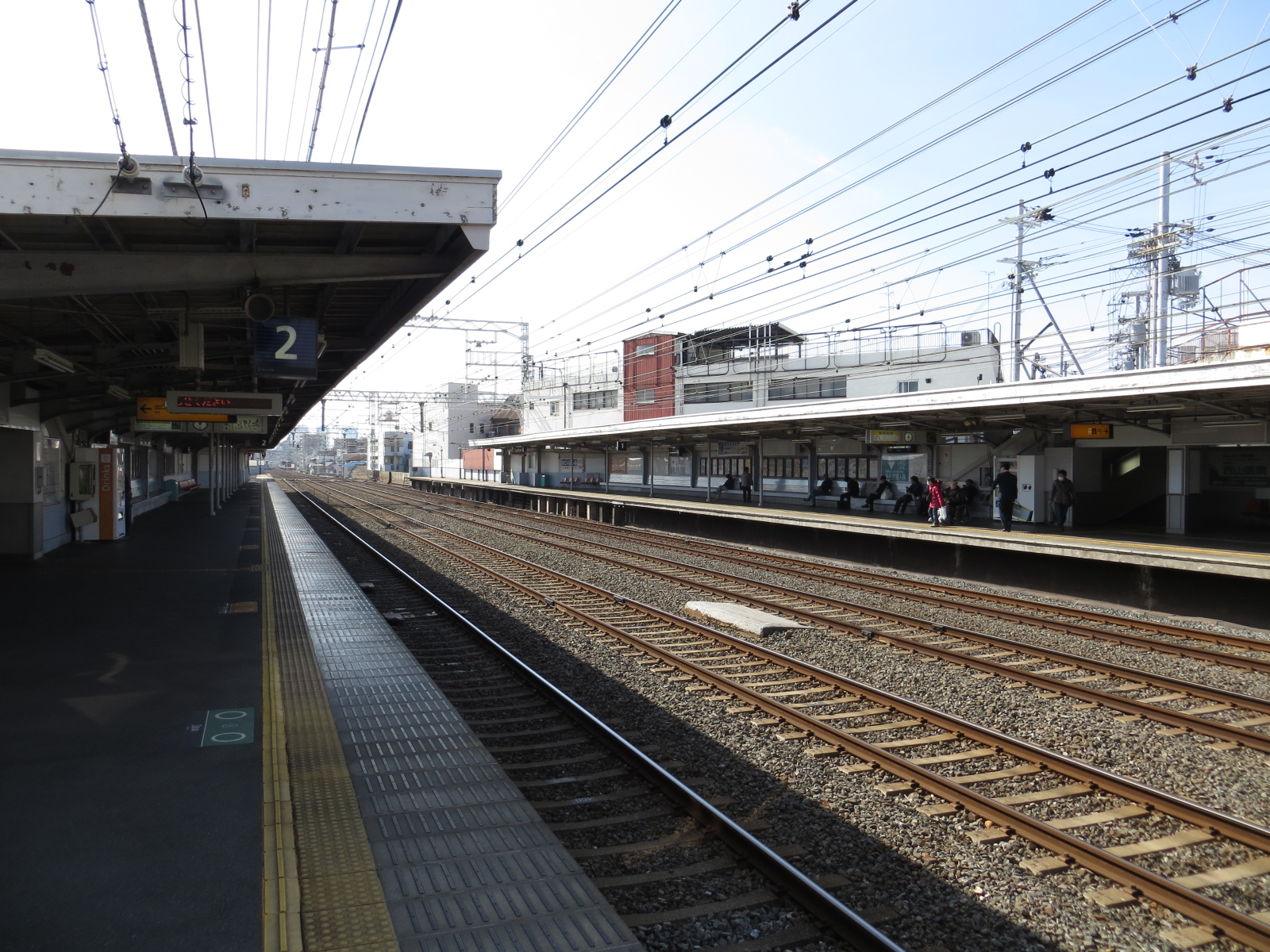 Railway platform from Sembayashi Station.